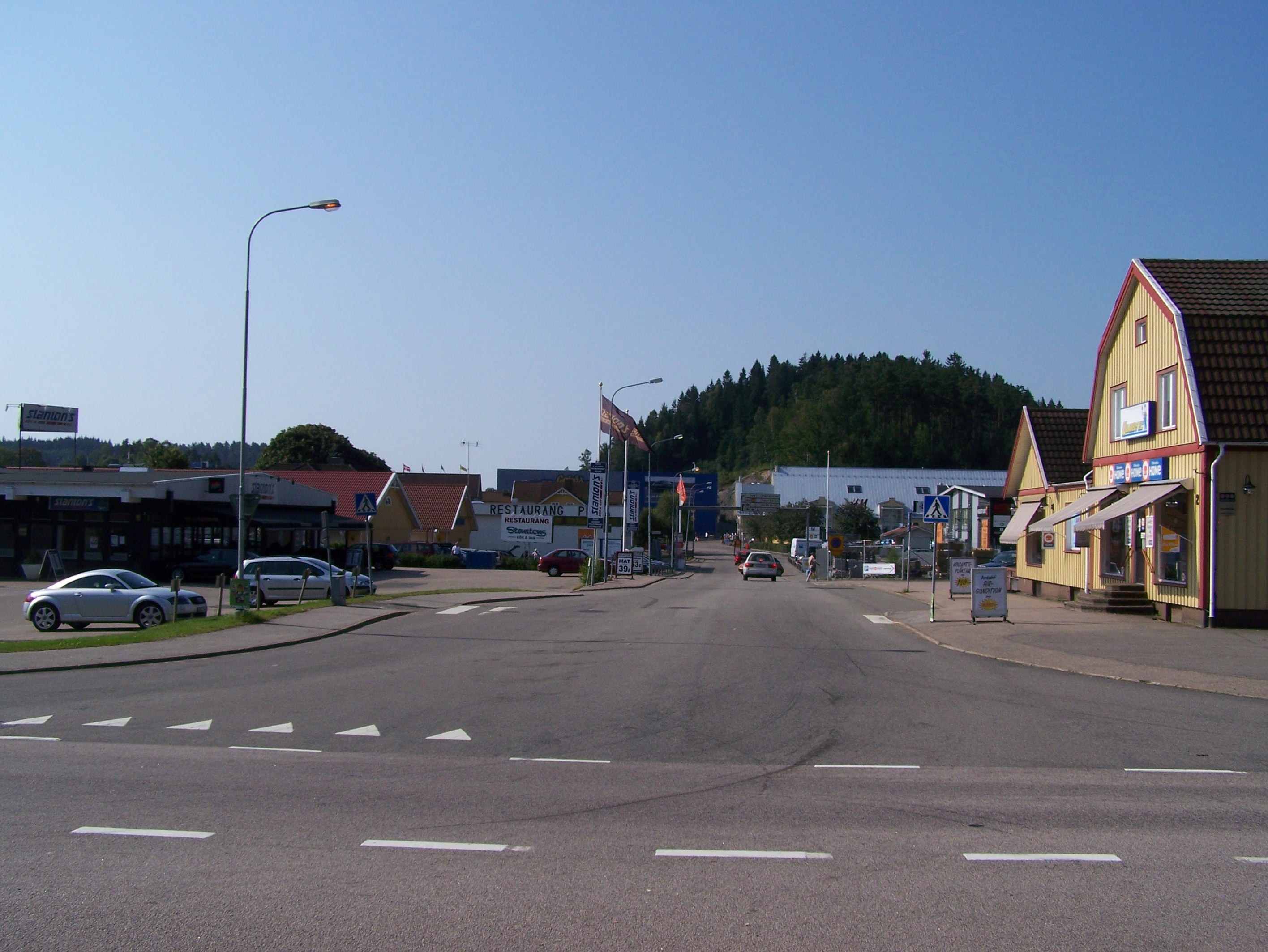 Photo of Ullared along Danska Vägen, along which much of the commercial activity is centred